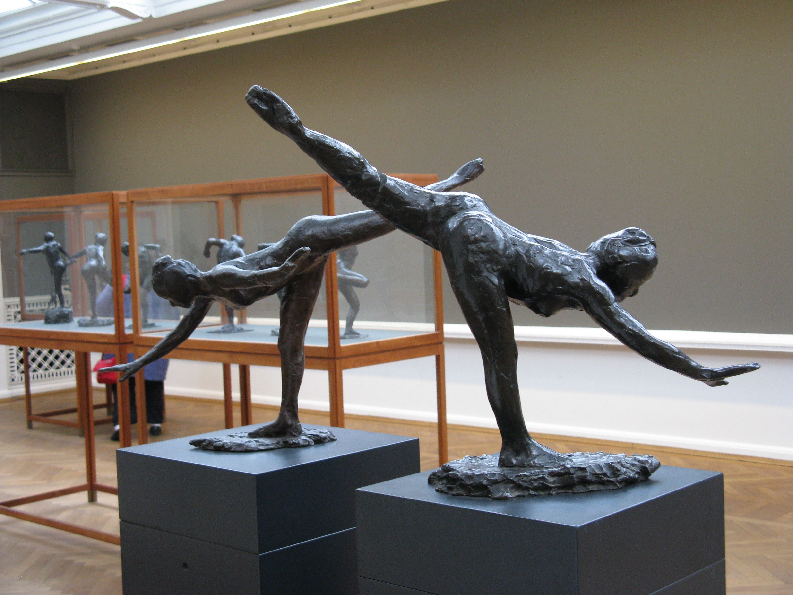 Dancers by Edgar Degas at Ny Carlsberg Glyptotek.